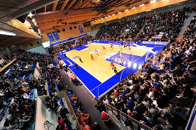 Basketball floor of Saint Eloi